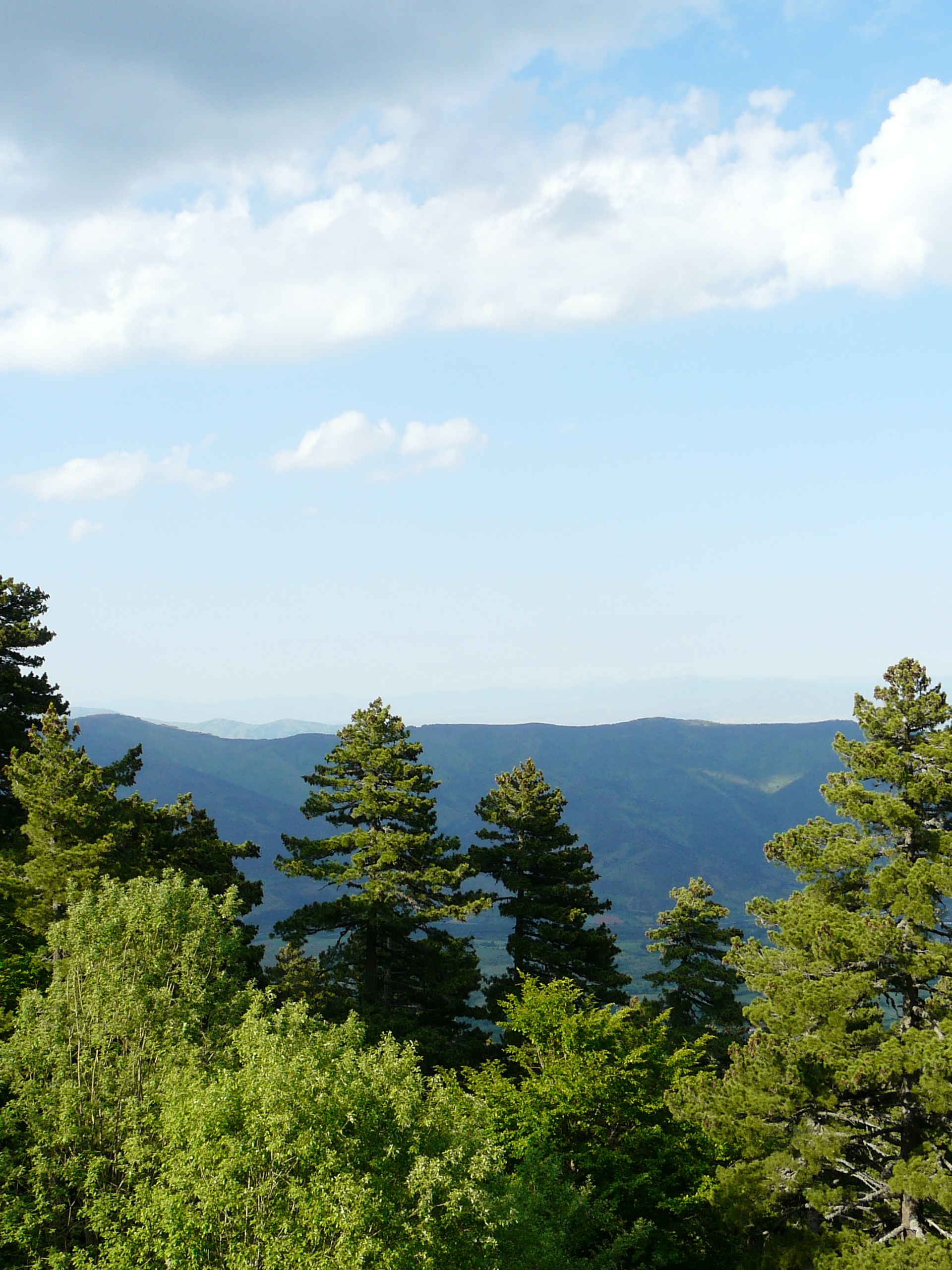 Pinus peuce forest, Pelister, North Macedonia